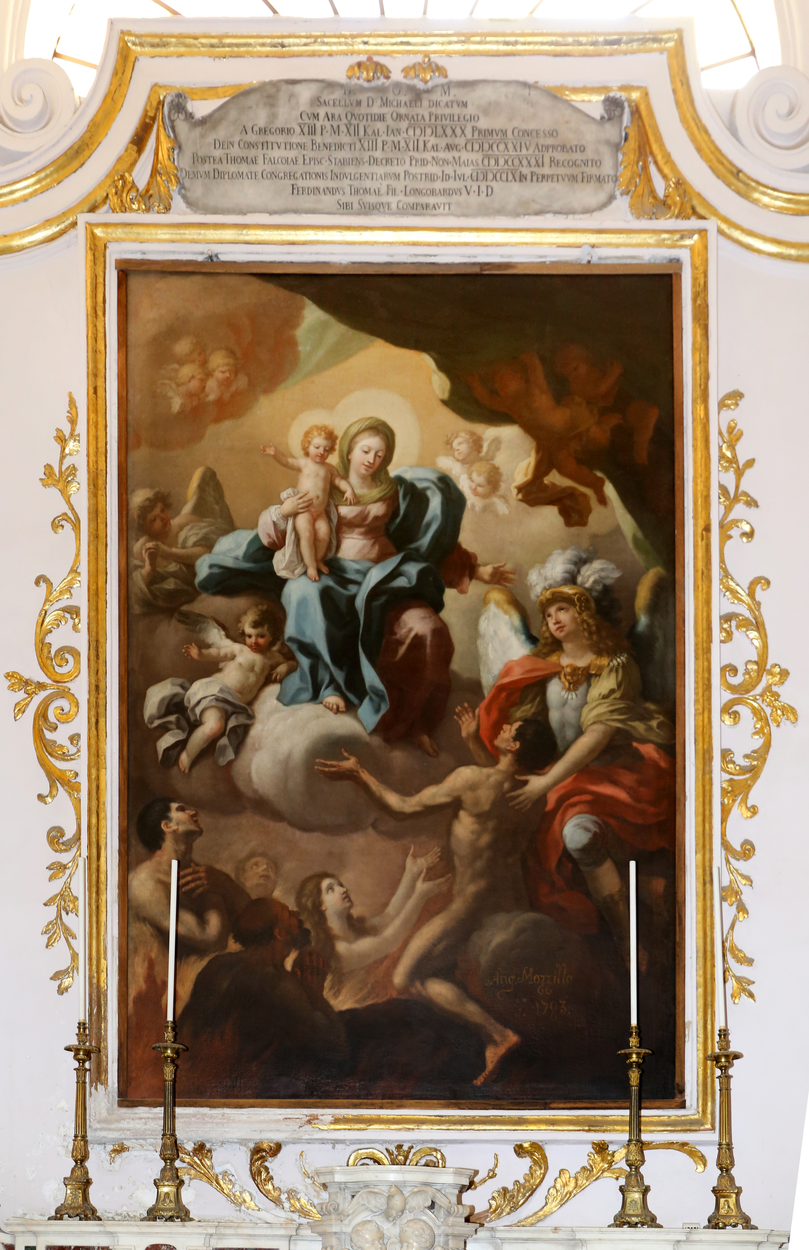 Santissima Maria Assunta e San Catello (Castellammare di Stabia) - Interior